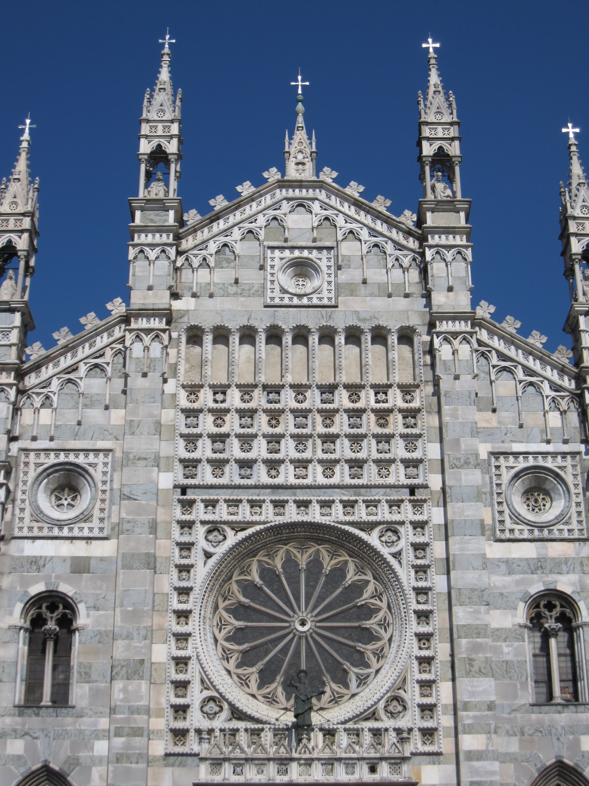 The Duomo of Monza in Lombardy.